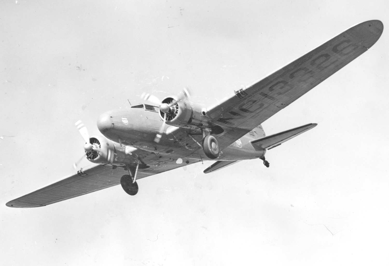 Boeing247D_OakUnited